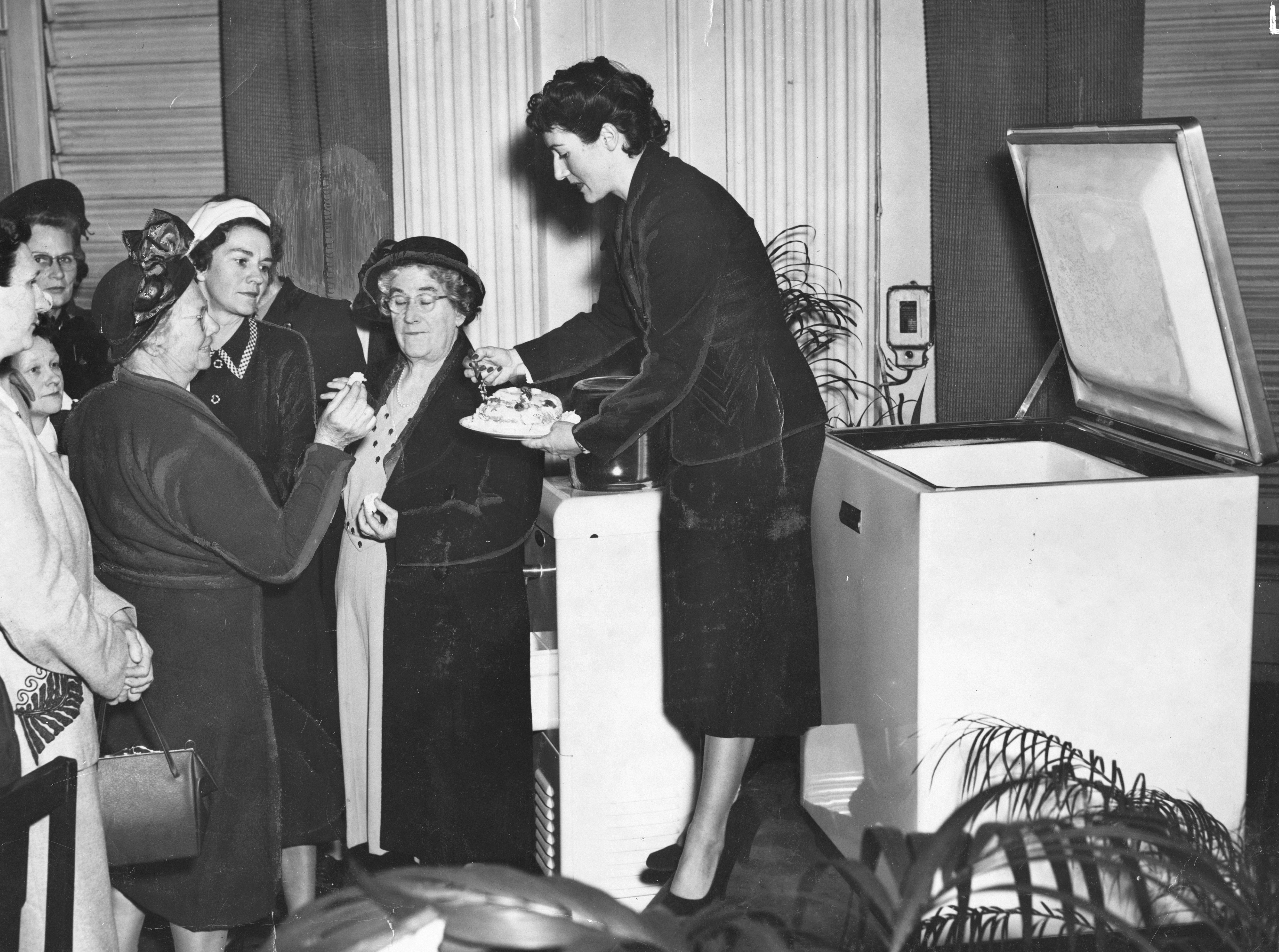 Creator: Unidentified for The Telegraph (Brisbane, Qld). Location: Brisbane City, Queensland. Description: Cake three months old was pronounced oven-fresh by volunteer tasters at a recent quick-frozen foods demonstration by Miss Del Cartwright, cookery expert. (Description supplied with photograph). View this image at the State Library of Queensland: Information about State Library of Queensland’s collection: You are free to use this image without permission. Please attribute State Library of Queensland.